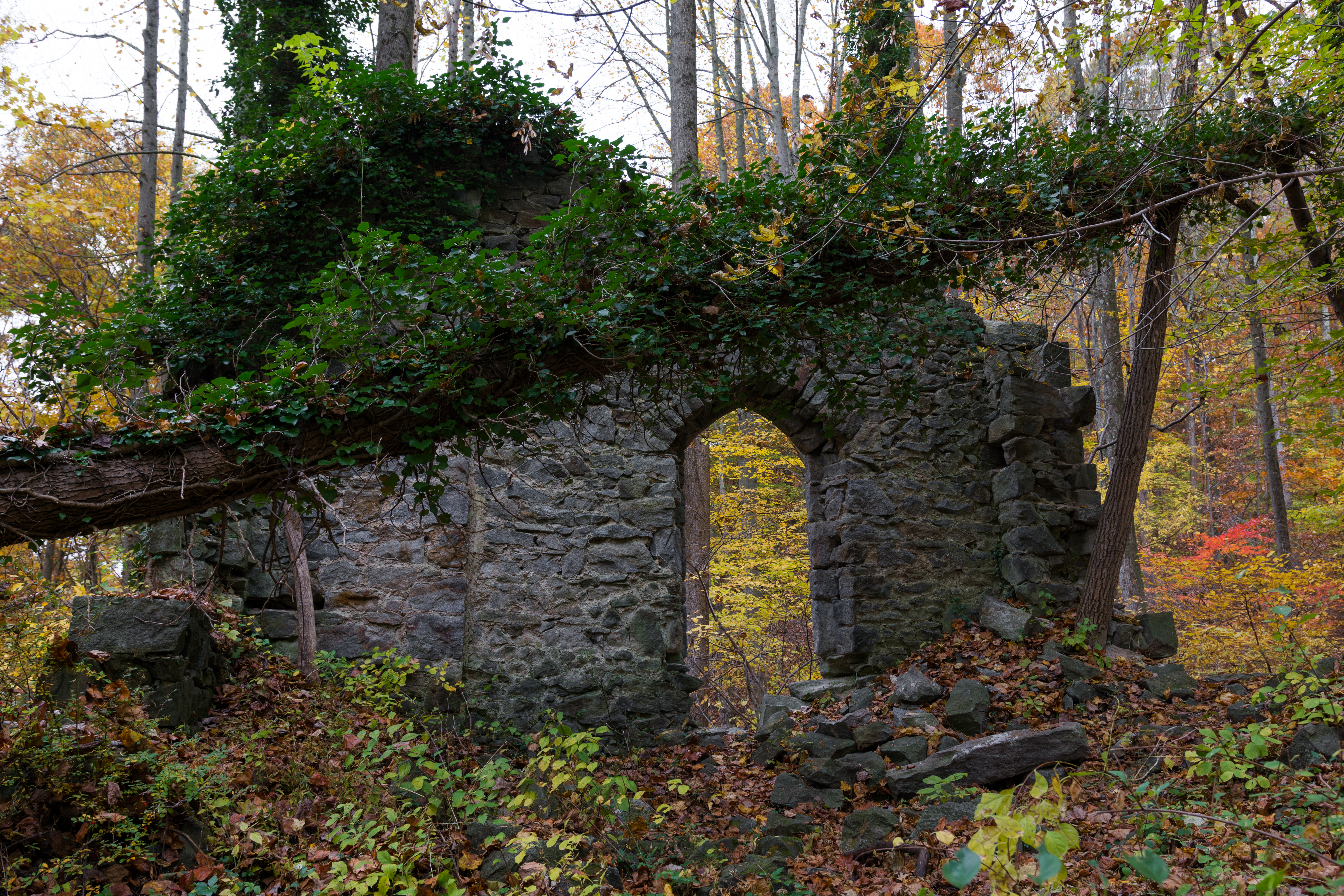 The ruins of the Saint Stanislaus Kostka Catholic Church in Daniels, Maryland.